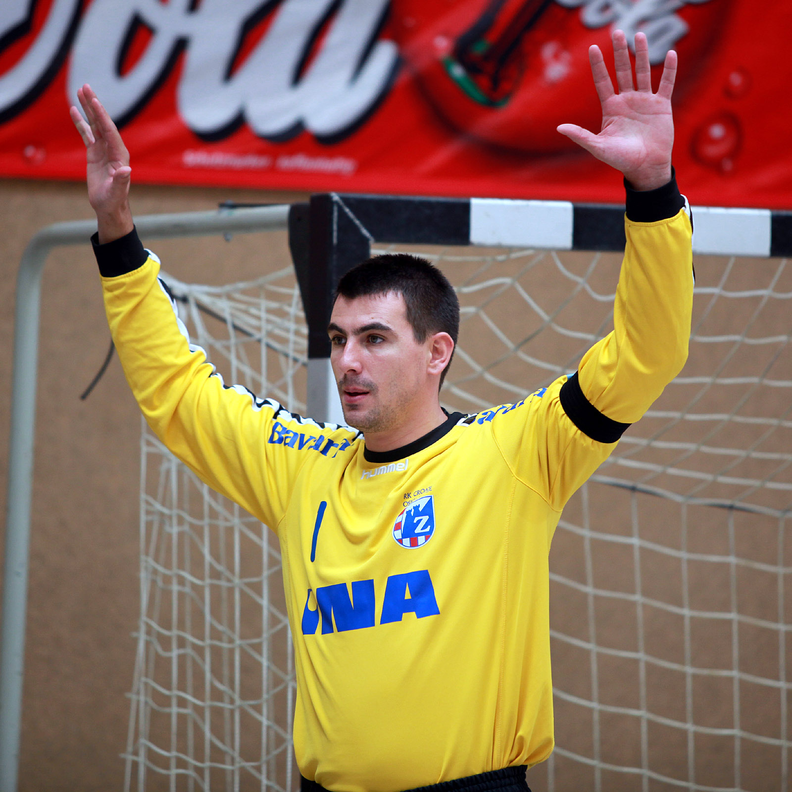 Marin Šego, handball goalkeeper from RK Zagreb, on August 14th, 2010 in Ehingen (Germany).